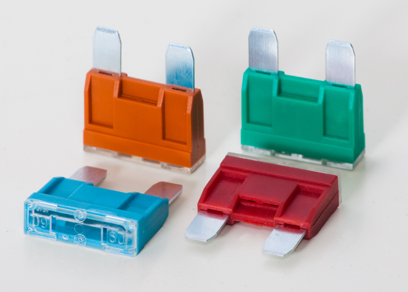 Fuses